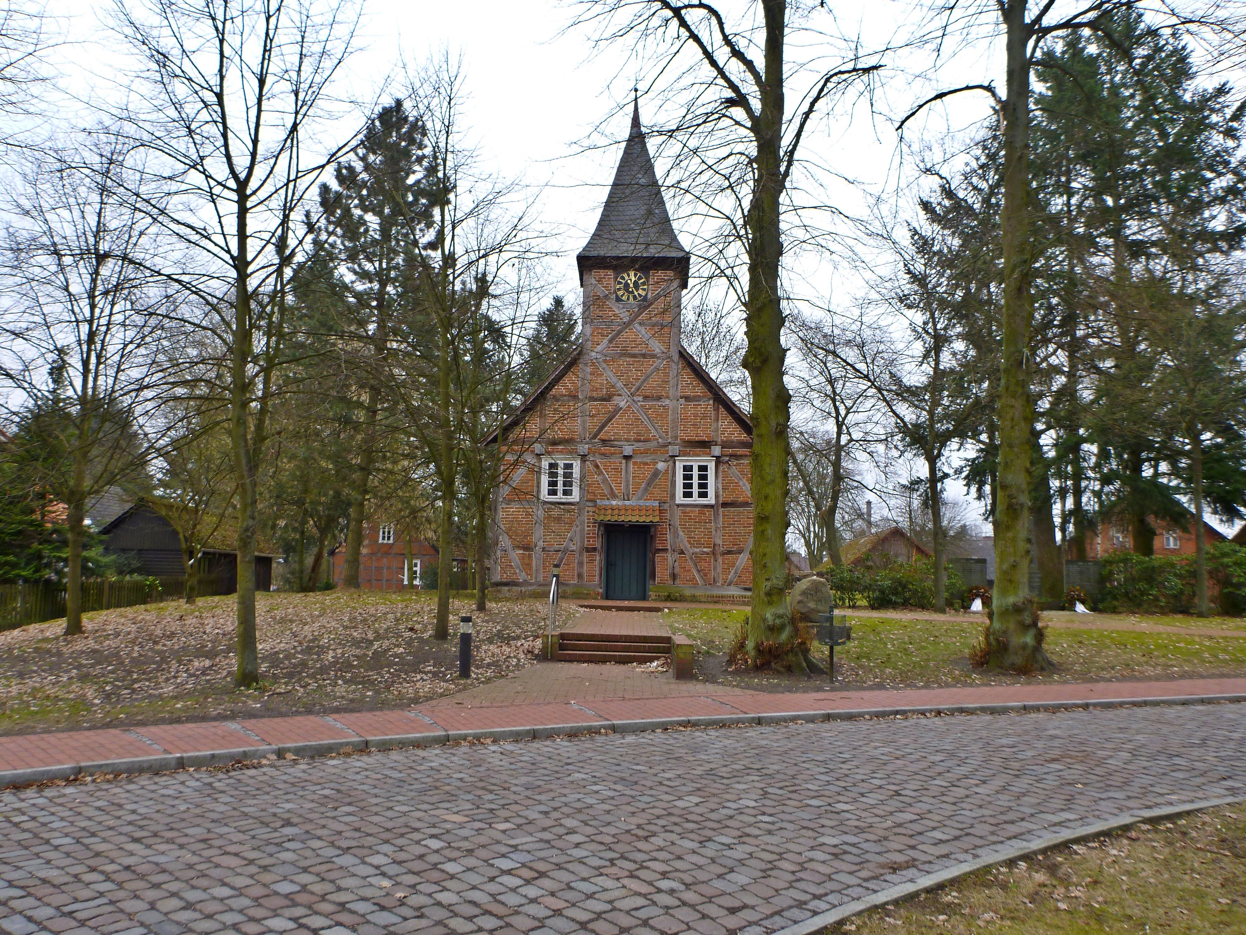 Church in Gorleben